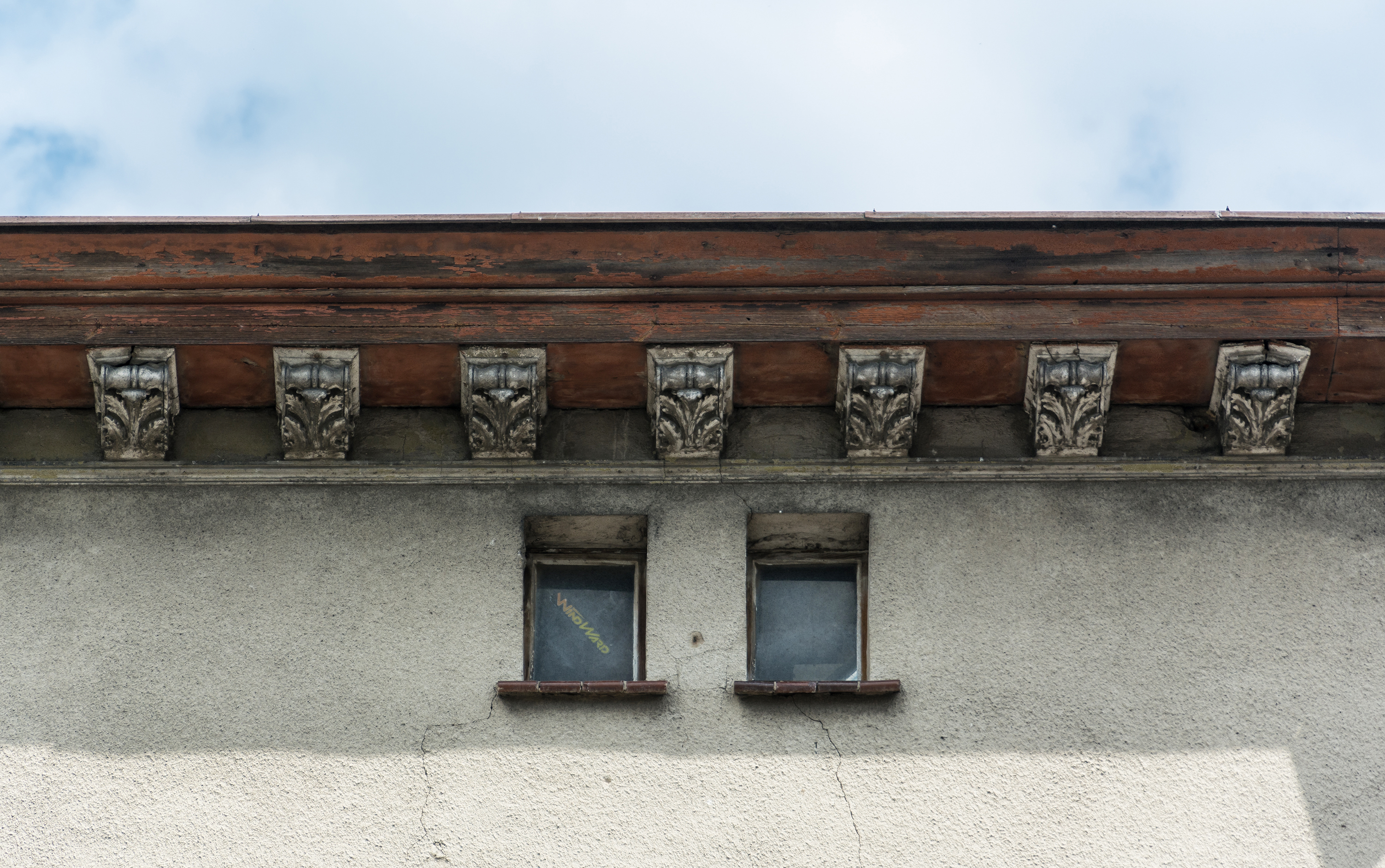 5 Wodna Street in Strzelin